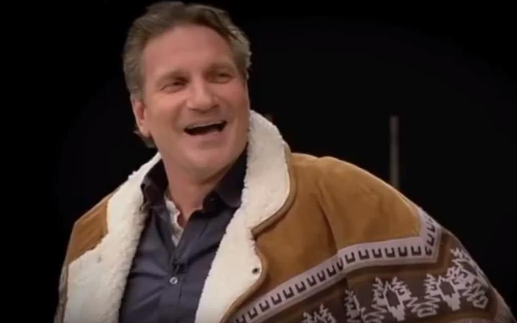 Dutch actor Peter Blok. Promo De Vloer Op, no. 6 (2011)